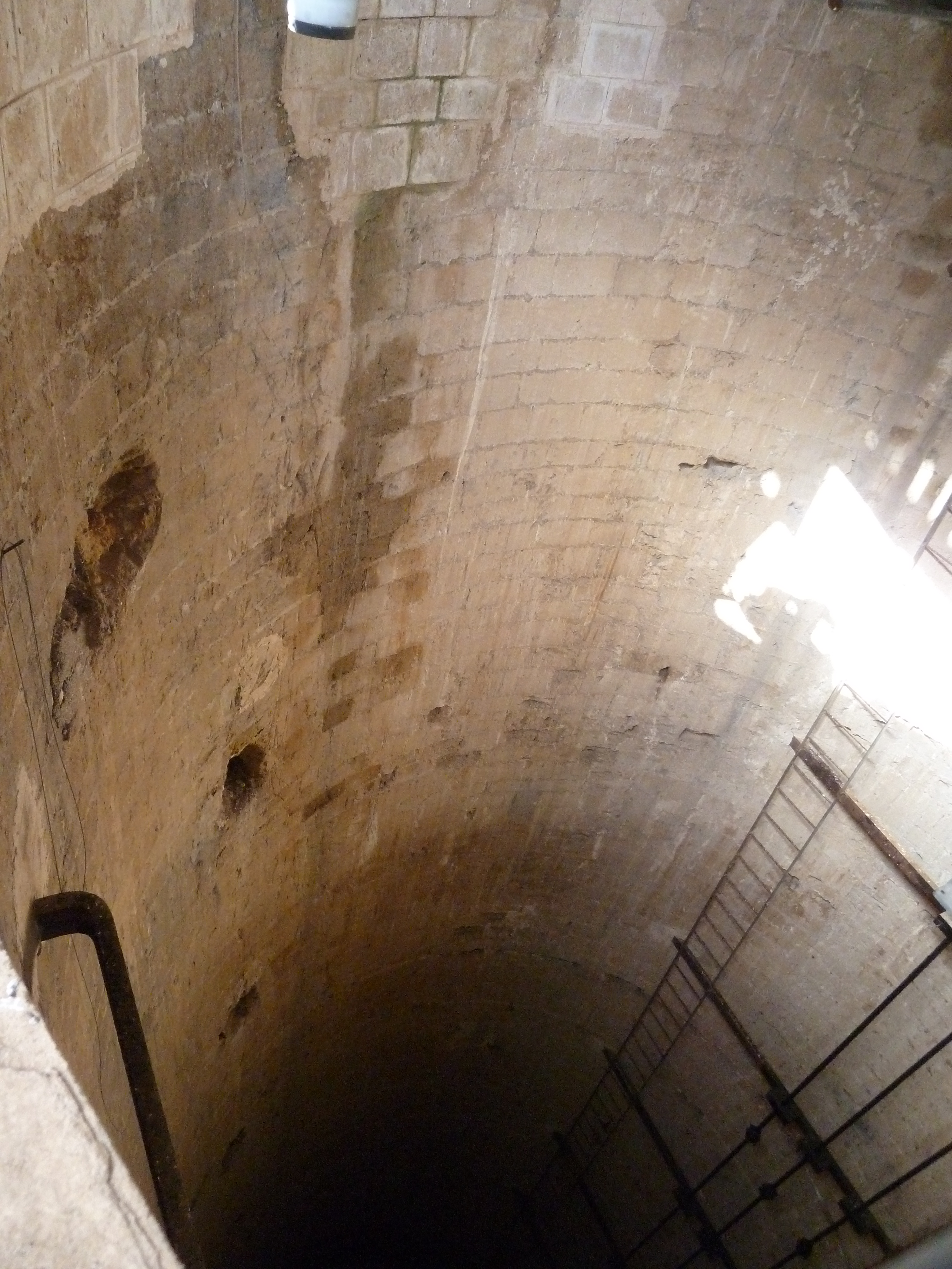 The Well House at Pardes Minkov, The Museum for the History of Orange Growing in Israel, Rehovot, Israel This image was taken as part of the Elef Millim project trip to Pardes Minkov near Rehovot in the Centre of Israel, which was held on Friday, 8th February 2013. To view all images uploaded as part of the Elef Millim Project